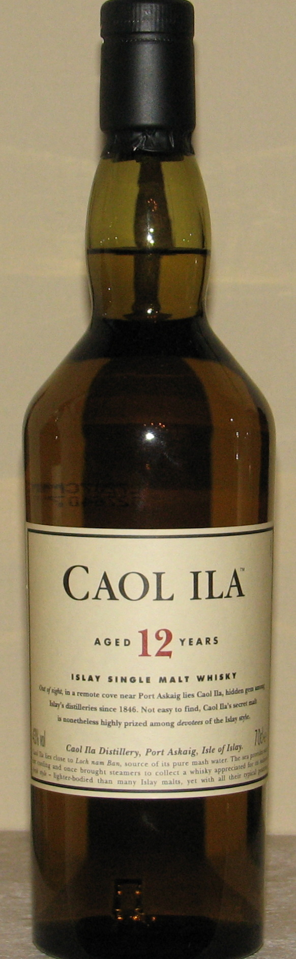 Caol Ila Islay Single Malt Whisky aged 12 years